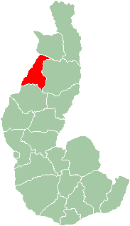 Location map of Morondava region in Toliara province.